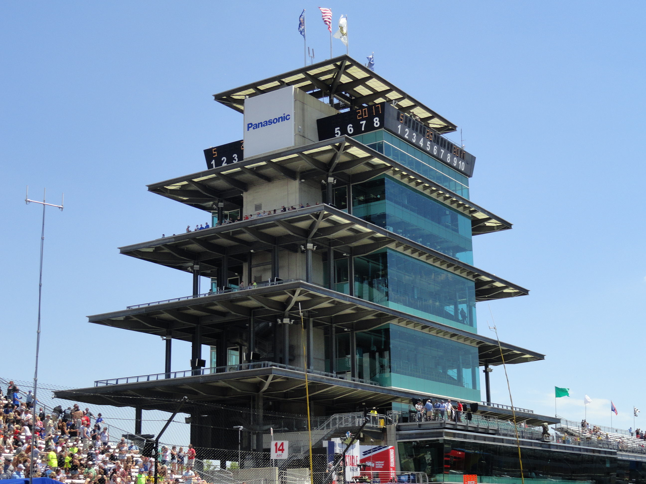 Indianapolis Motor Speedway Pagoda at the 2017 Indianapolis 500